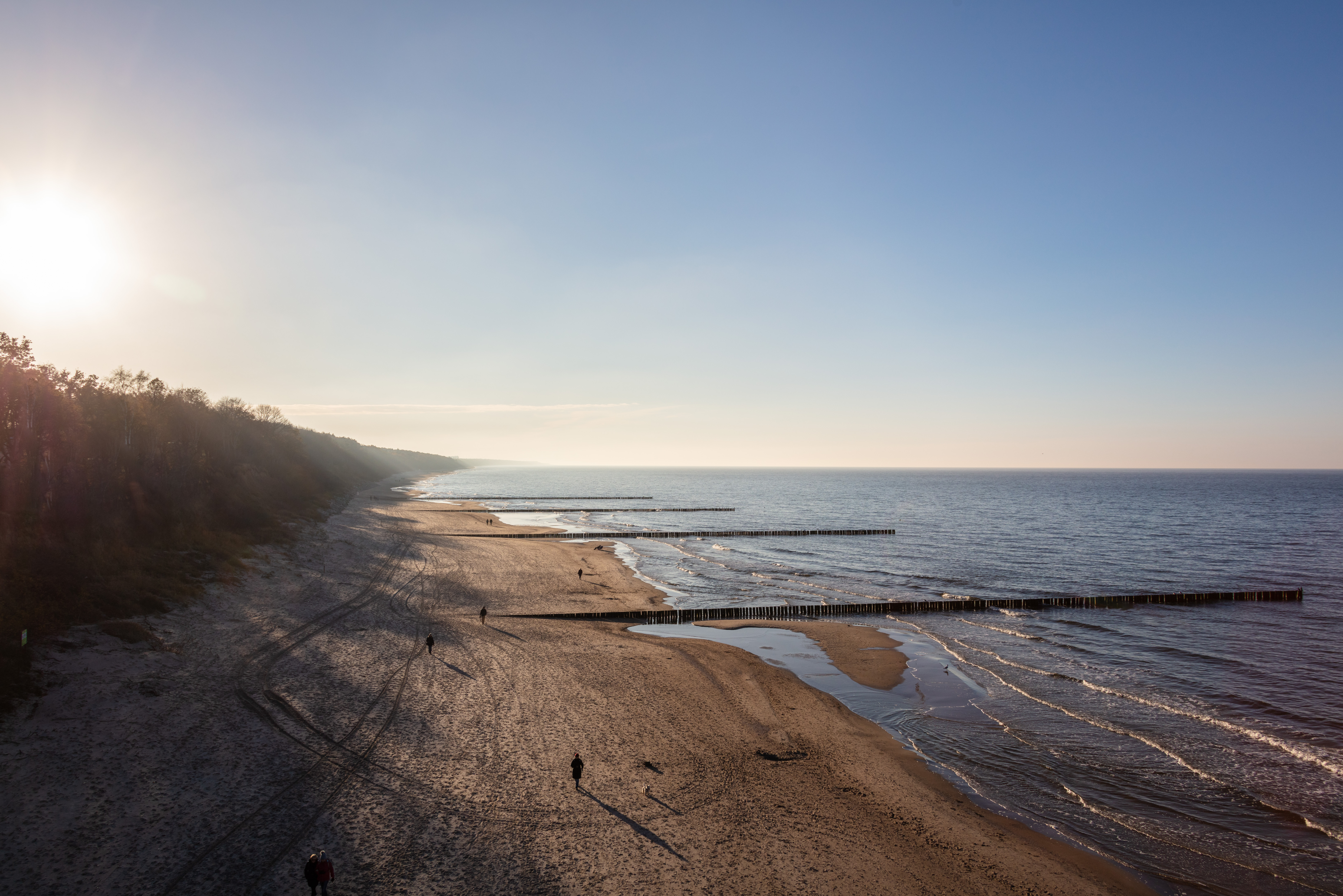 Coast of Trzęsacz, Poland